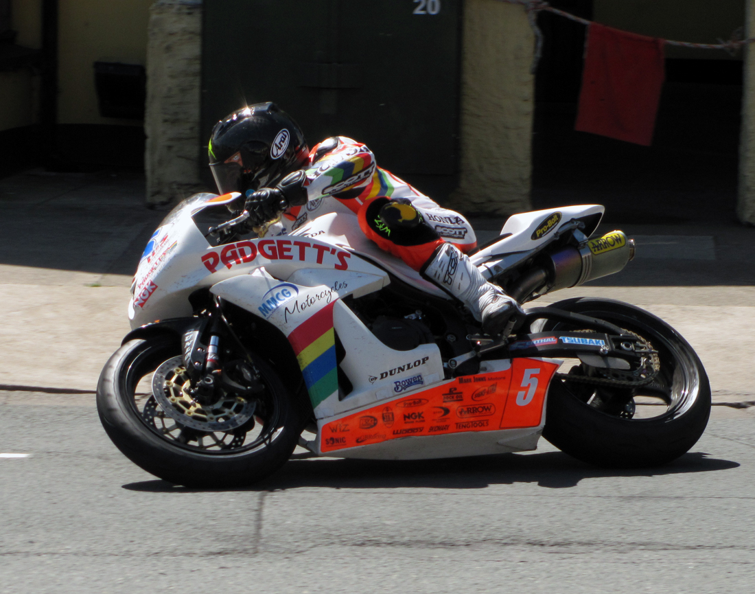 Description : Isle of Man TT Races Date : 4th June 2012 Source : / Agljones at en.wikipedia Permission See below.